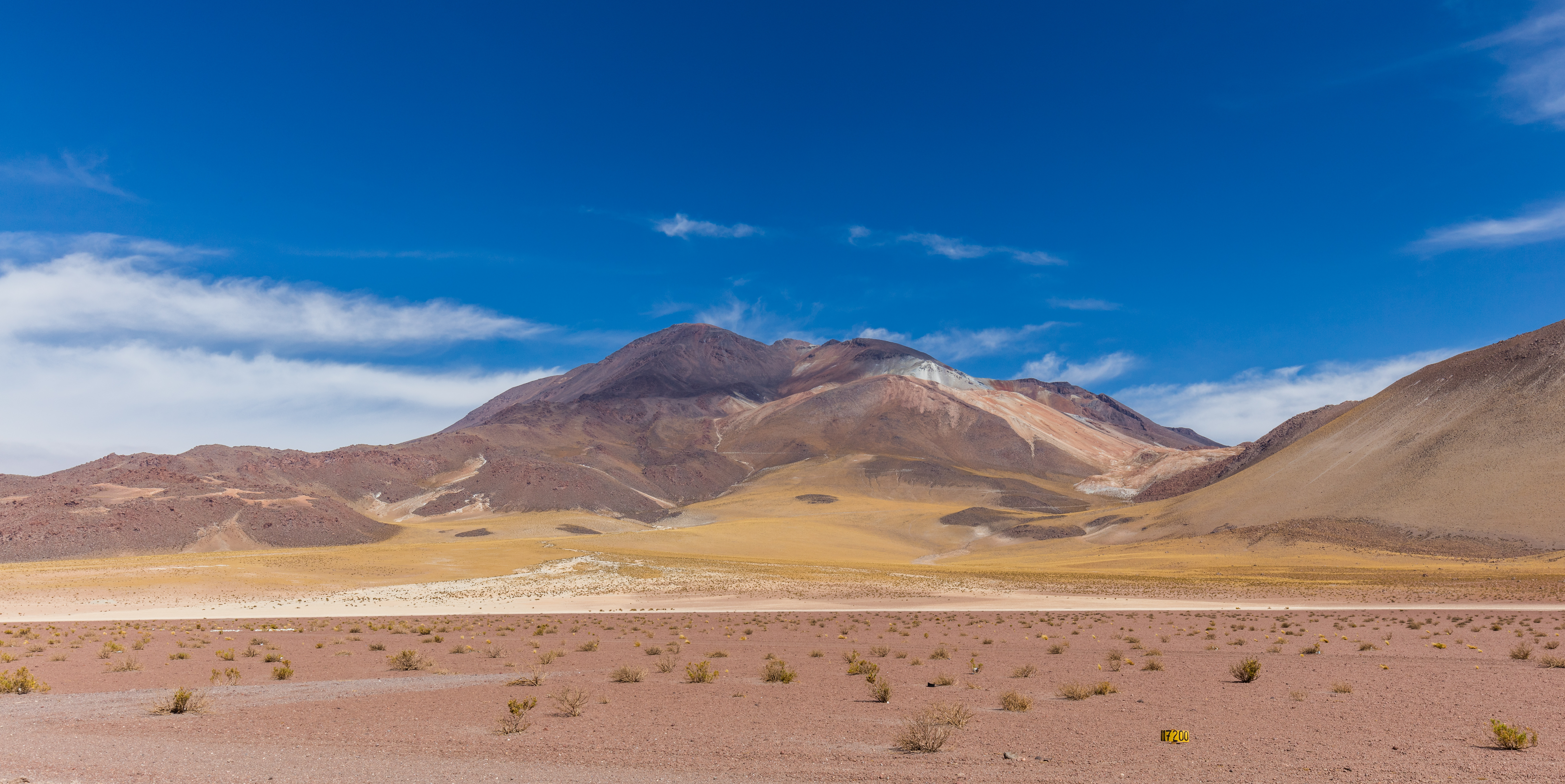 Sulfur Hill, Chile